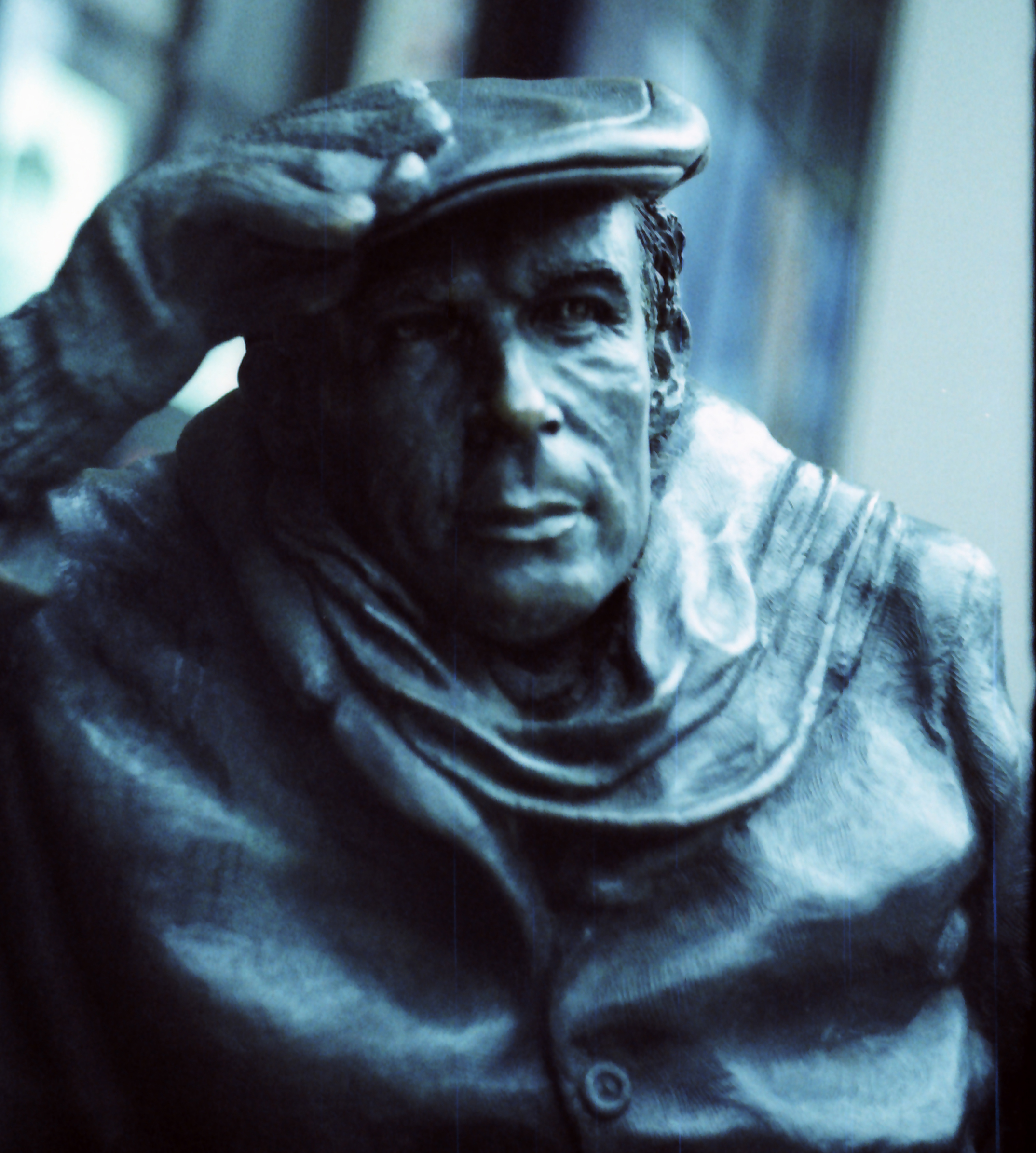 Statue of Glenn Gould in Toronto, Ontario, Canada.